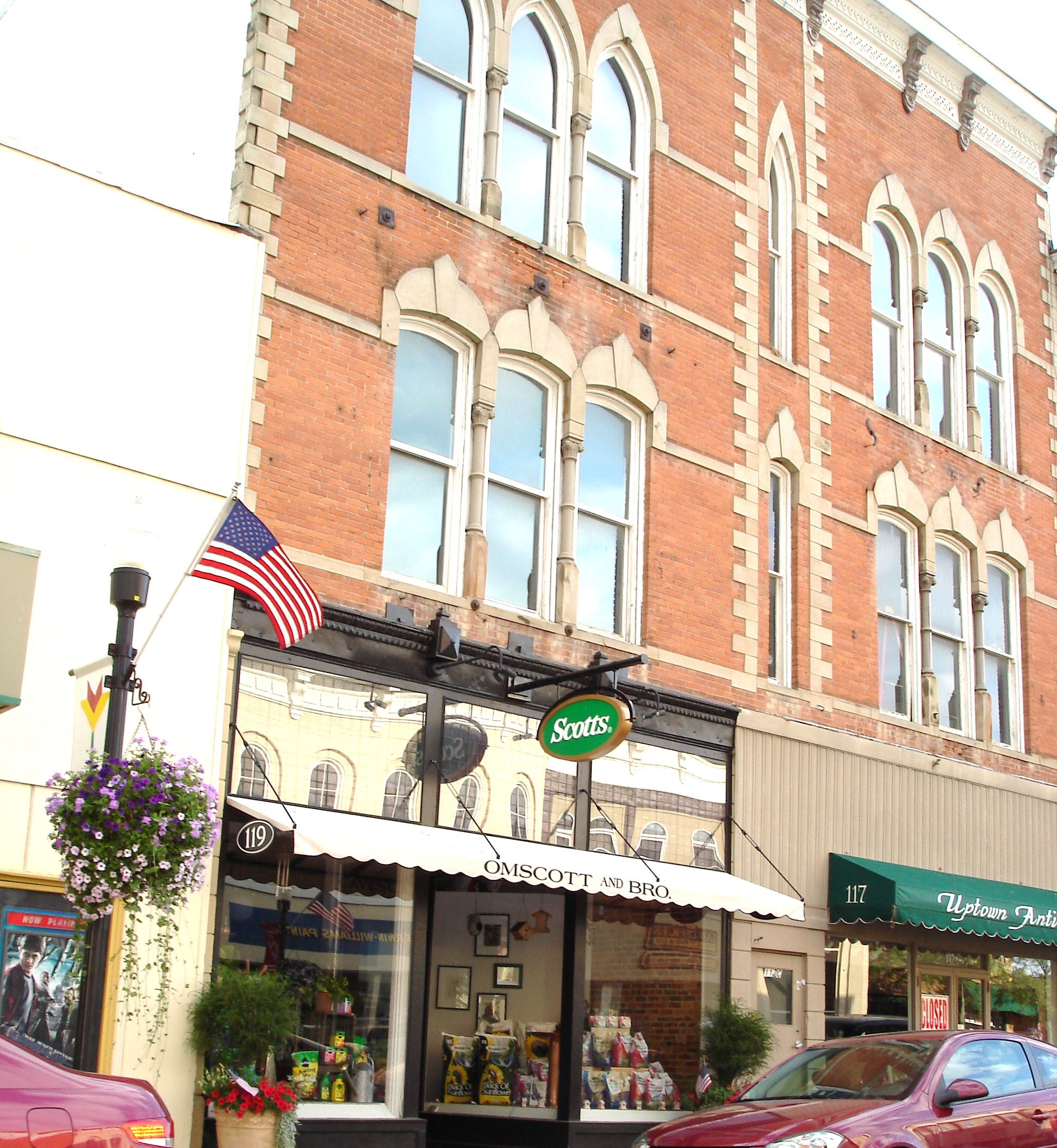 Scotts Museum Store, Marysville, Ohio, United States